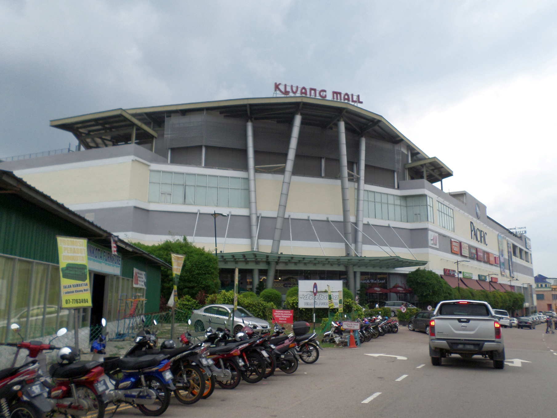 Kluang Mall, Kluang, Johor, Malaysia